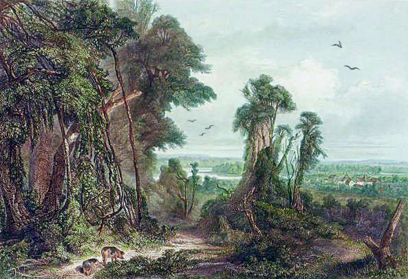 View to New Harmony on the Wabash River by Karl Bodmer 1832 – 1833. de: Blick auf New Harmony am Fluß Wabash 1832-1833, Kupferstich handkoloriert von Karl Bodmer.